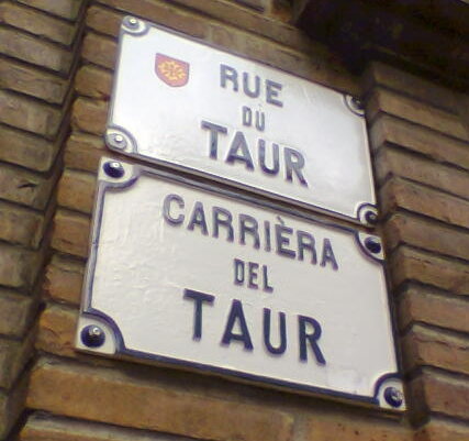 Occitan and French language street signs in Toulouse (Haute-Garonne, France).